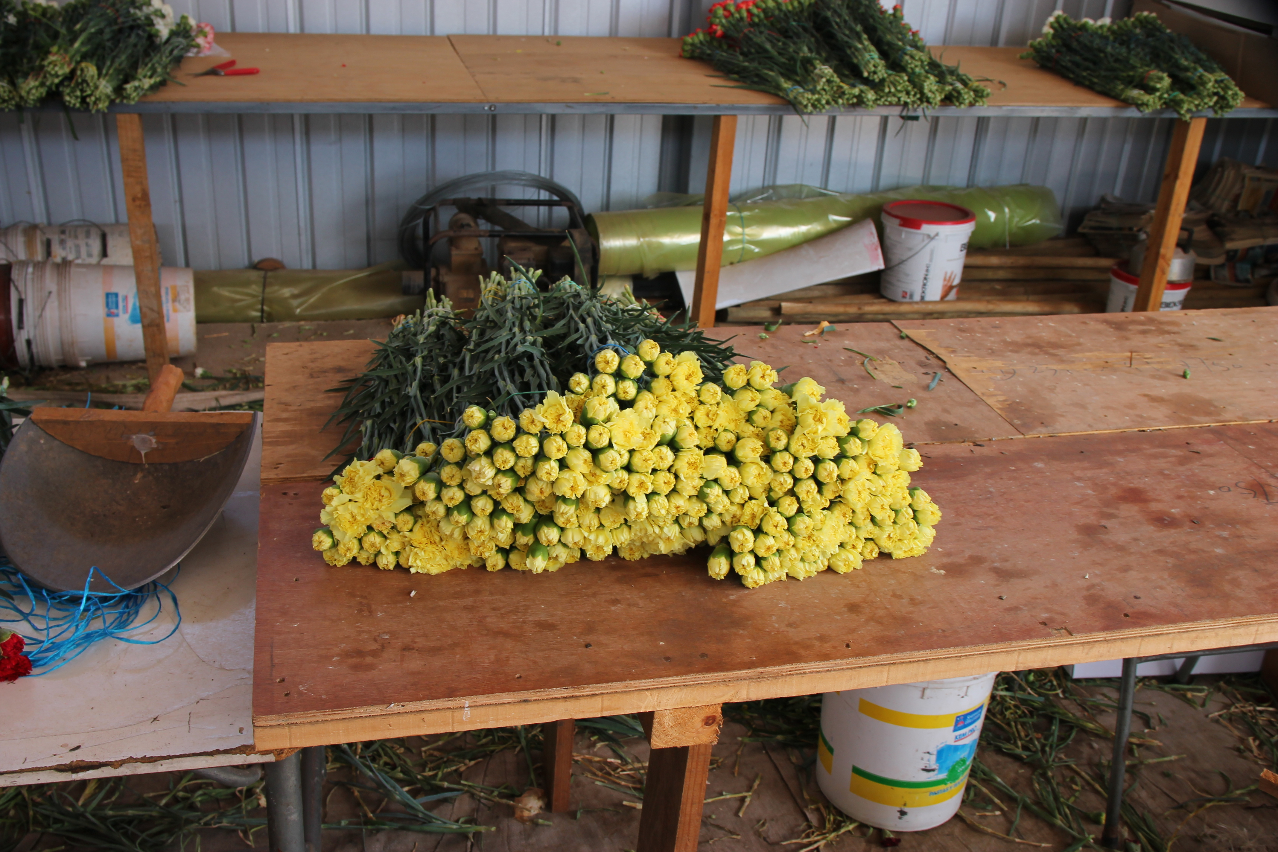 Carantions, Longotoma, La Ligua